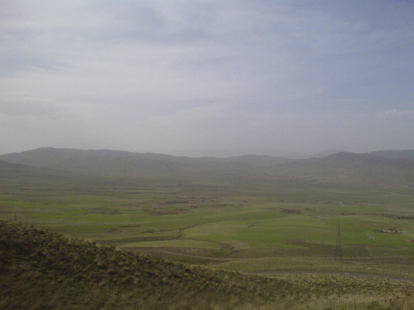 faraj abad فرج آباد روستایی زیبا در استان مرکزی شهرستان خمین